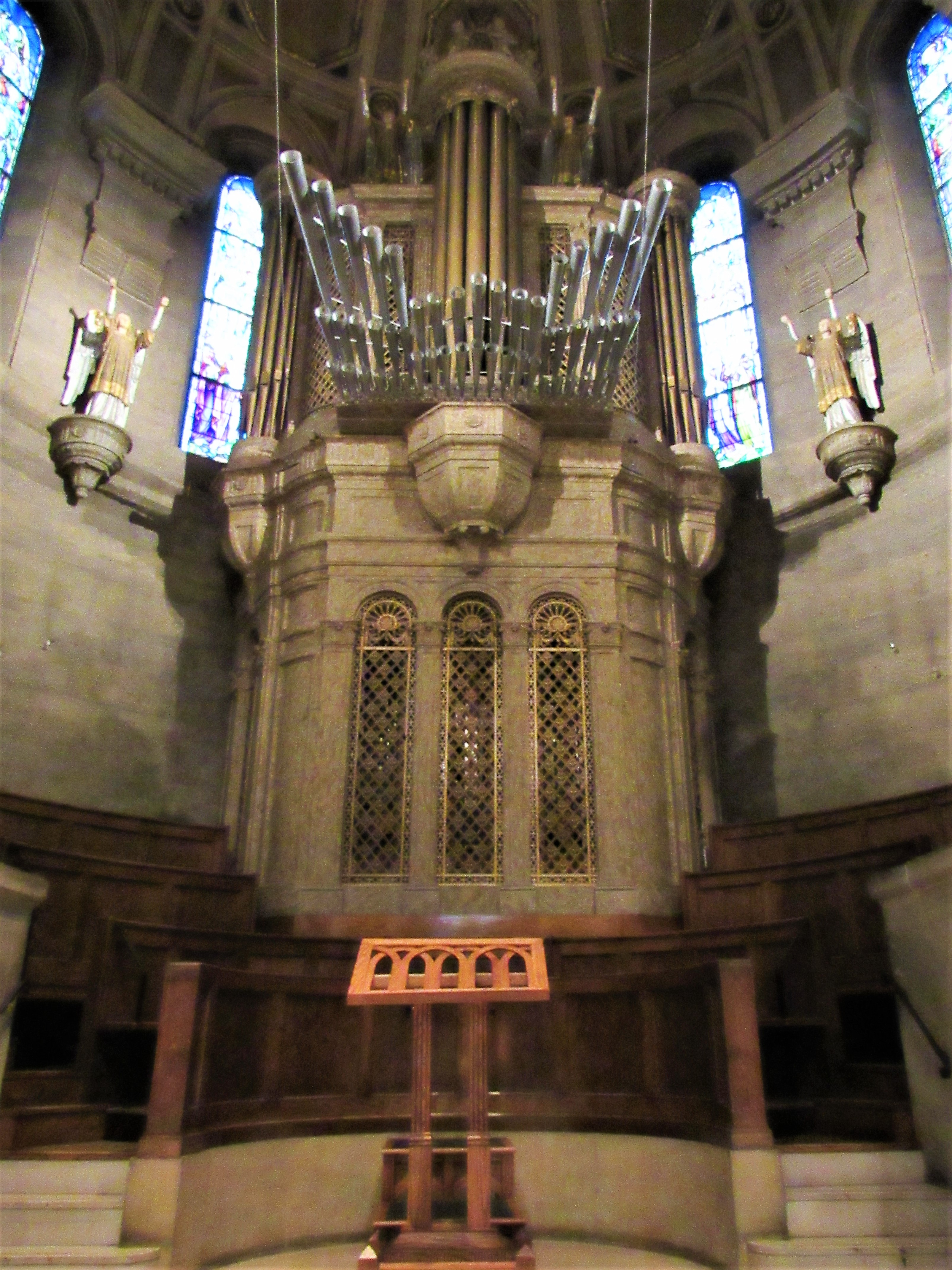 Some of the organ pipes and the choir in the Basilica of Saint Mary in Minneapolis, Minnesota